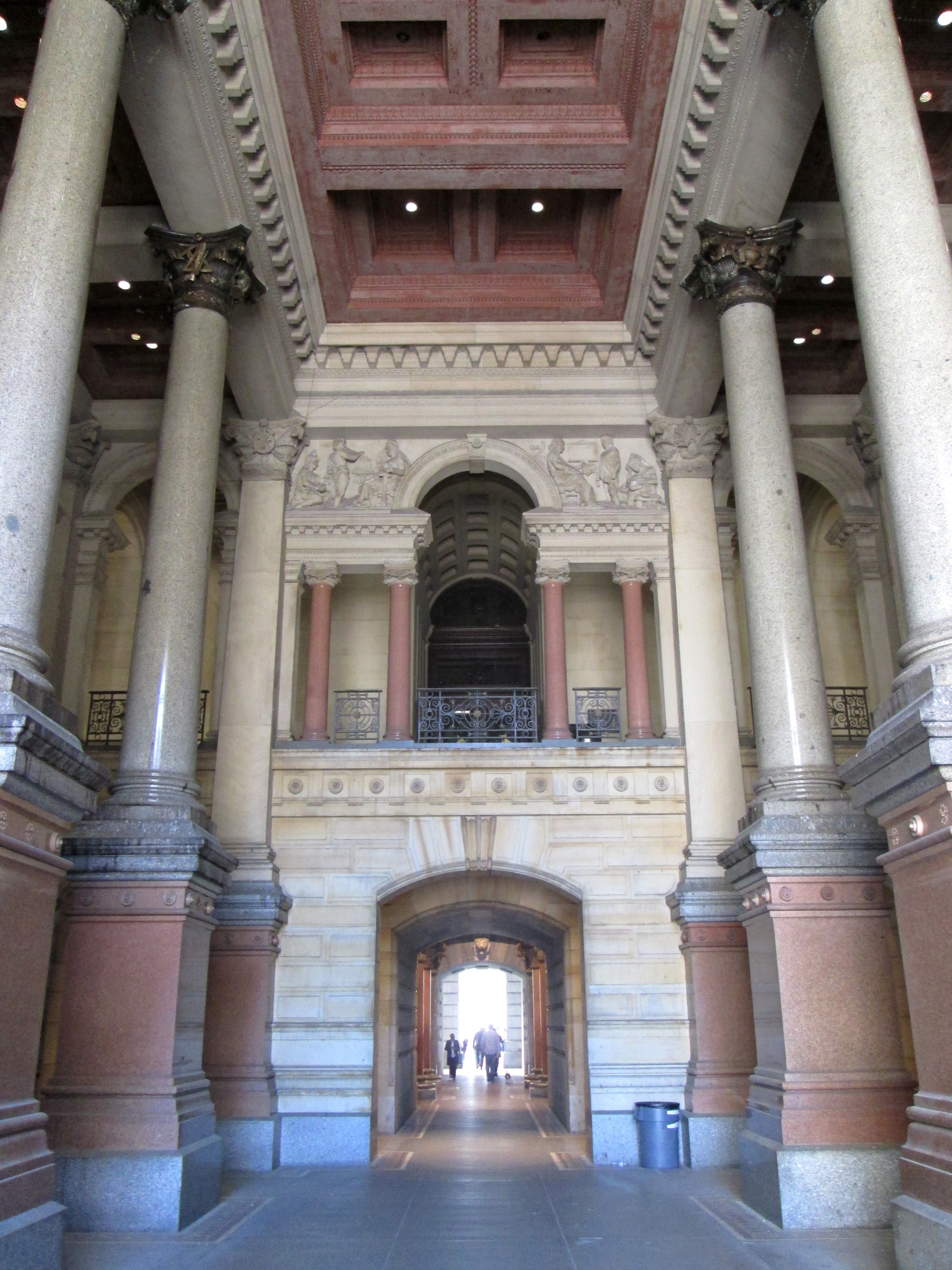 The arcade leading through Philadelphia City Hall at North Broad Street.